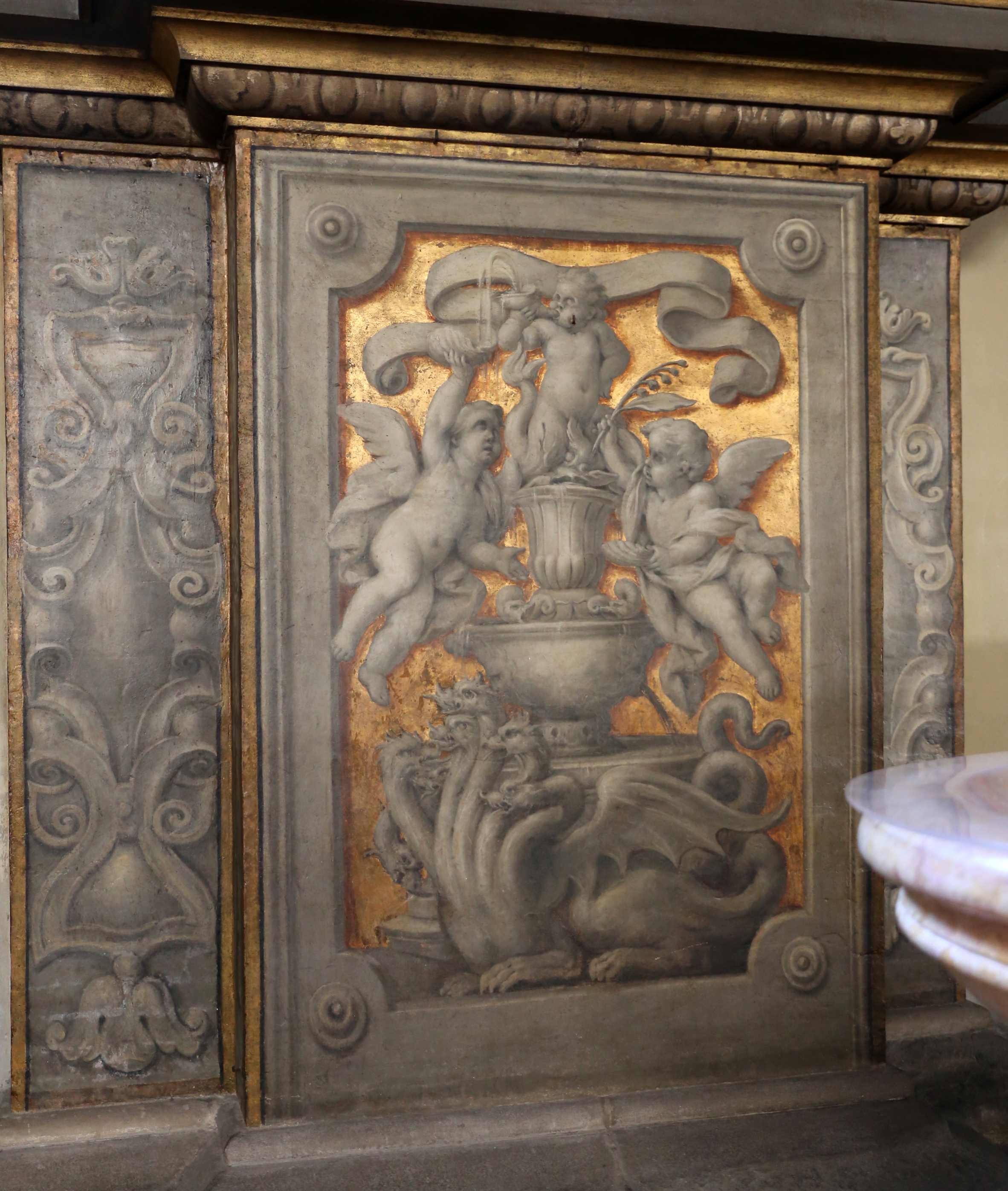 Santa Maria della Steccata (Parma) - Interior